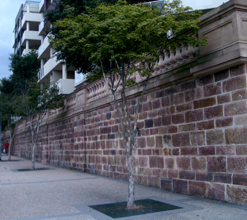 Eastern retaining wall and balustrade of Holy Name Cathedral on Ann Street, Brisbane.